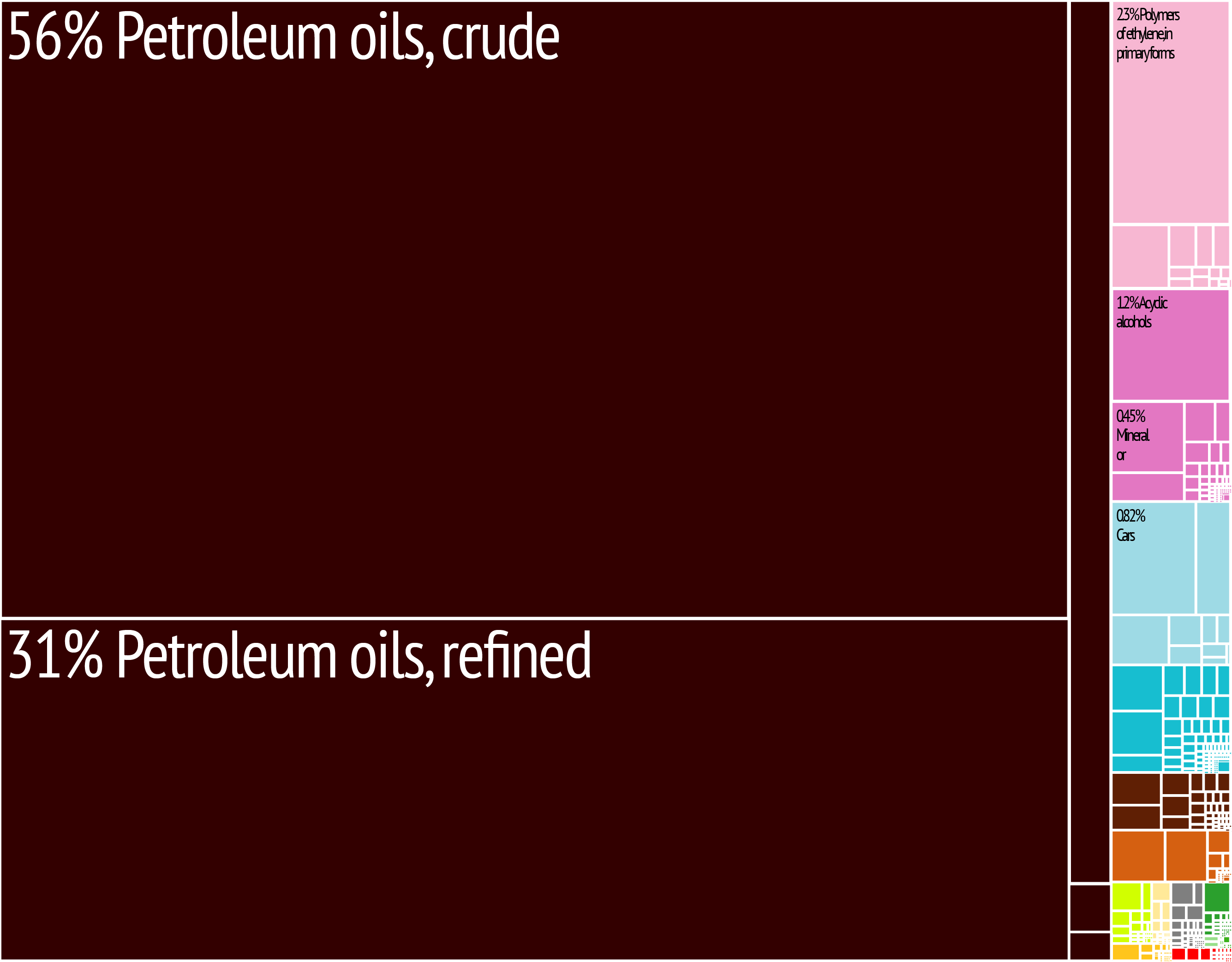 A proportional representation of Kuwait's exports.